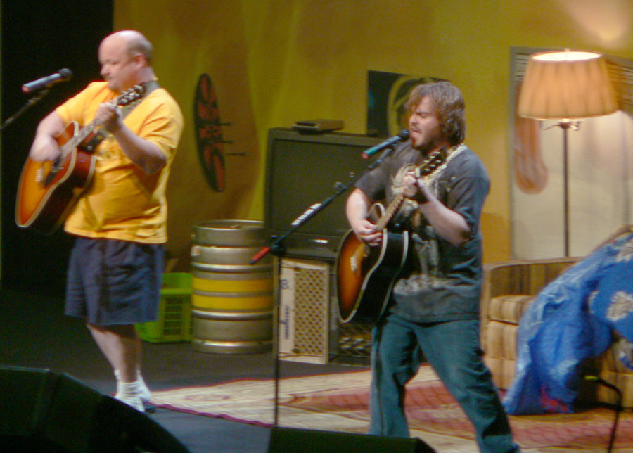 Jack Black and Kyle Gass of Tenacious D performing live.